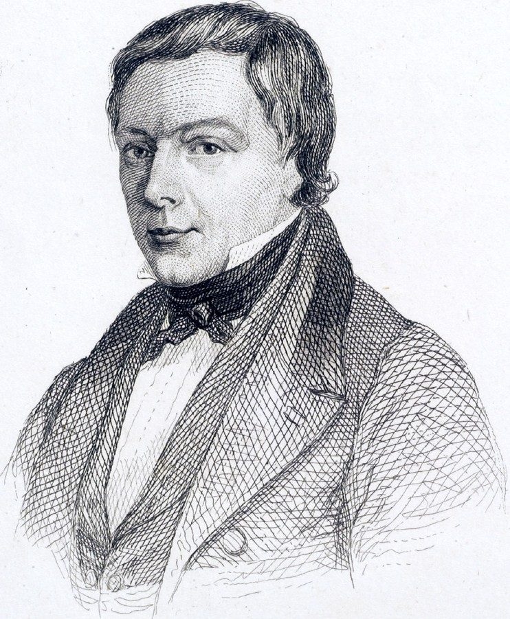 Abel-François Villemain (1790-1870), French writer, historian and politician